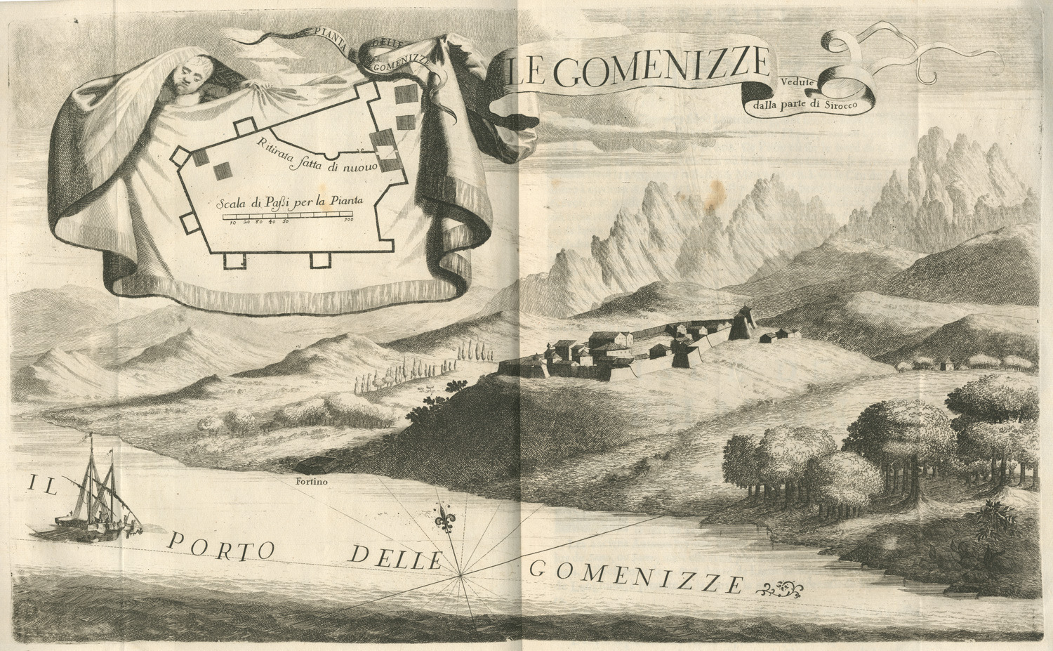 Vincenzo Coronelli - Repubblica di Venezia p. IV. Citta, Fortezze, ed altri Luoghi principali dell' Albania, Epiro e Livadia, e particolarmente i posseduti da Veneti descritti e delineati dal p. Coronelli, Venice, 1688.